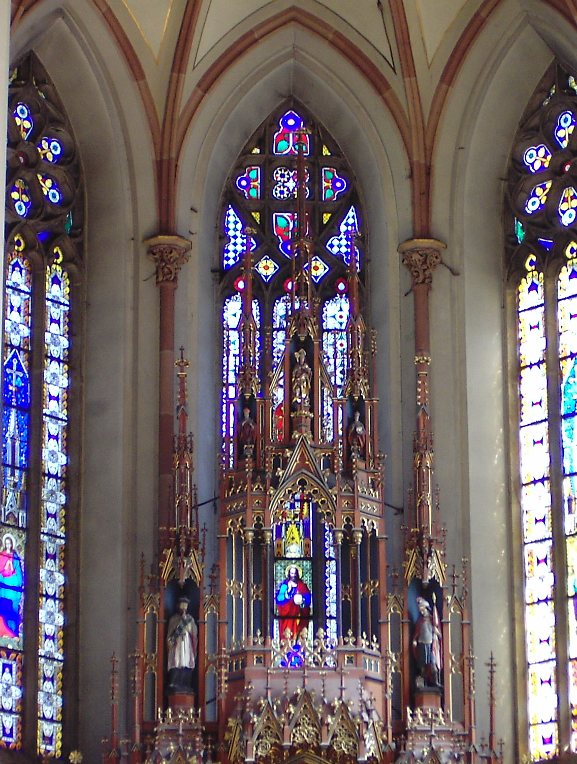 Colored Window Of The Cathedral Of St. Johann im Pongau, Salzburger Land - Austria